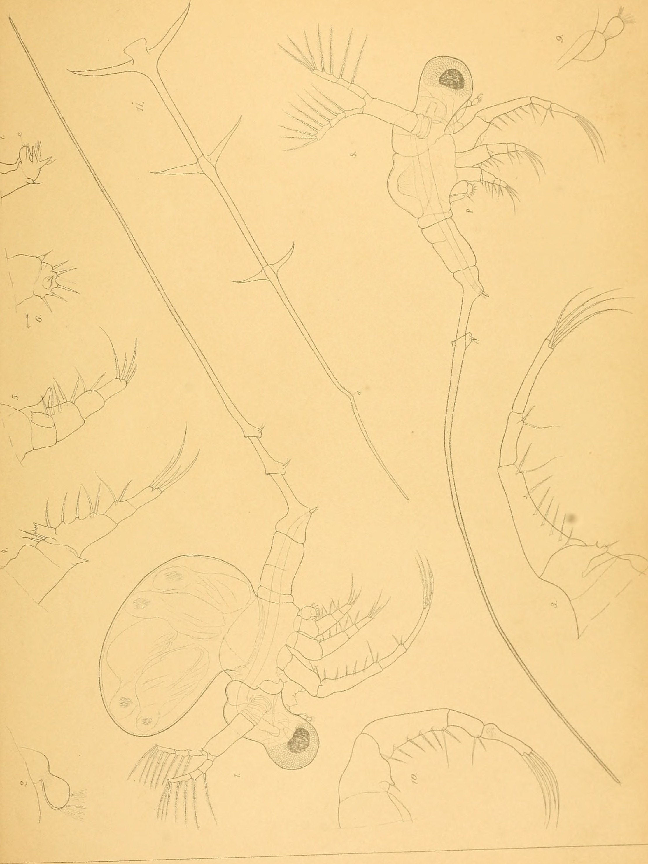 Title: Cladocera Sueciae; oder Beiträge zur kenntniss der in Schweden lebenden Krebsthiere von der Ordnung der Branchiopoden und der Unterordnung der Cladoceren Year: 1900 (1900s) Authors: Lilljeborg, Wilhelm, 1816-1908 Subjects: Cladocera; Freshwater animals Publisher: Upsala, Druck der Akademischen buchdruckerei E. Berling Text Appearing Before Image: ' Text Appearing After Image: '